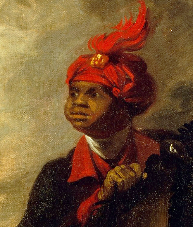 Detail:Portrait of William "Billy" Lee